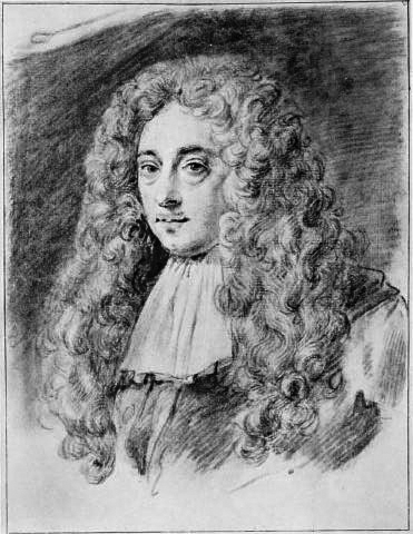 Constantijn Huygens Jr., (1628-1697), was a Dutch statesman, and telescope maker. He was the son of the poet and states-man Constantijn Huygens and the older brother of Christiaan Huygens